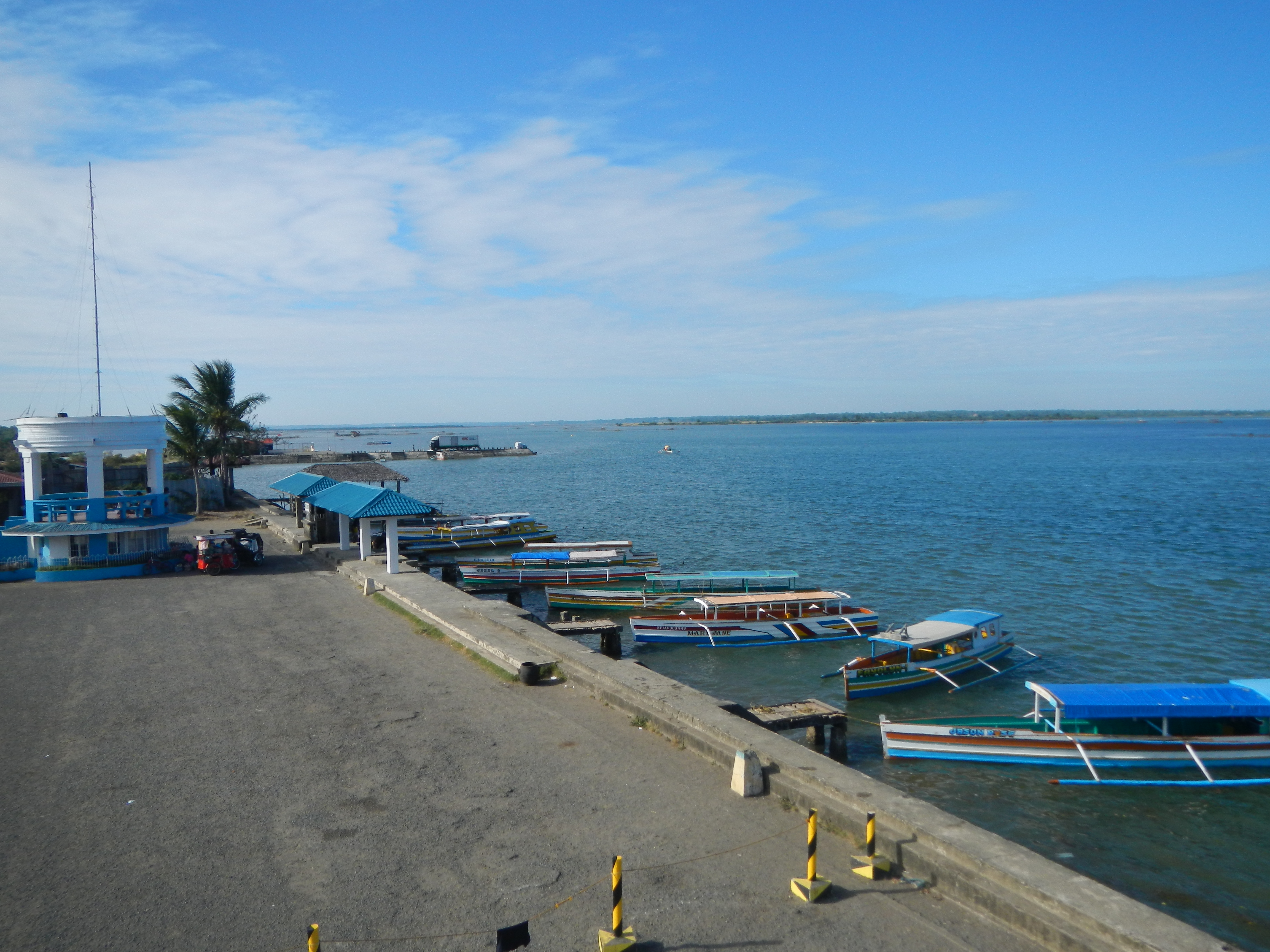 Hundred Islands National Park[1]